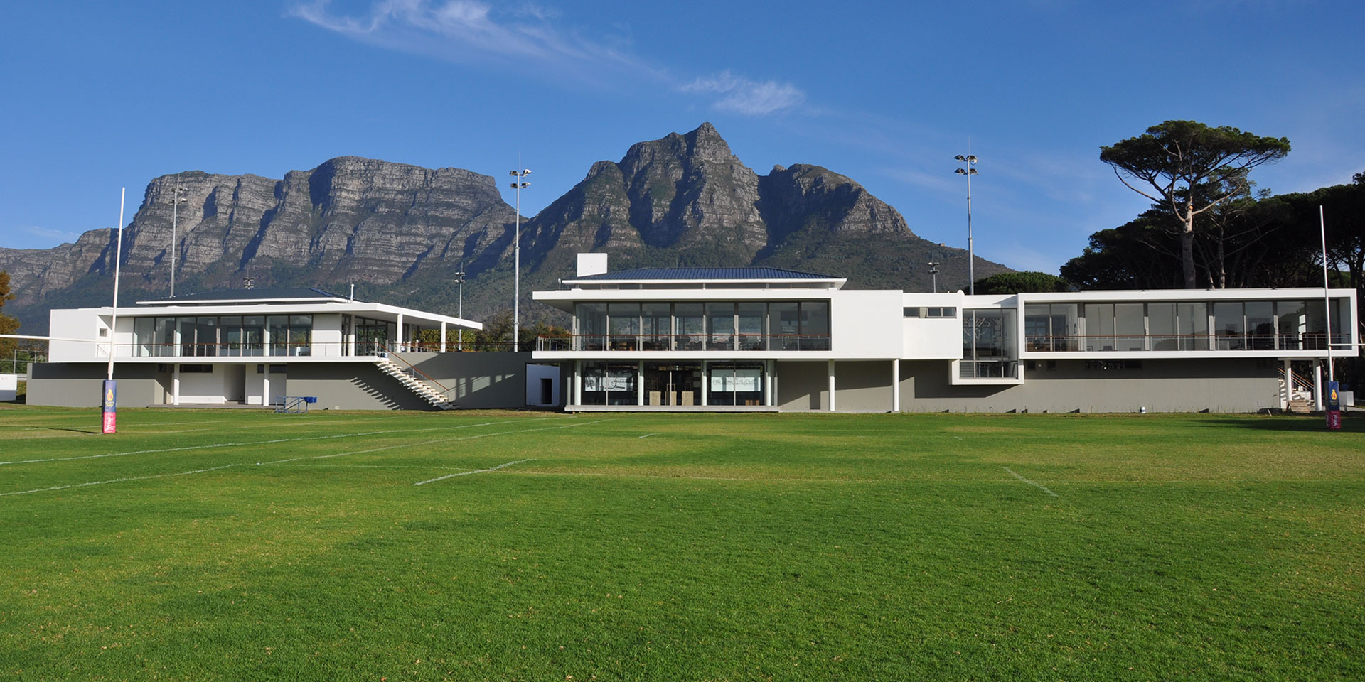 A picture of the OD Union and Woodlands Pavilion facing out towards Table Mountain and UCT taken from School House.